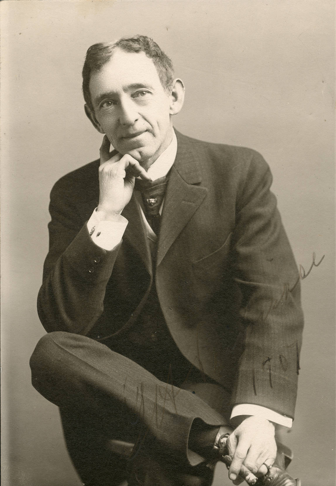 George Primrose, minstrel Subjects: minstrels and minstrel shows